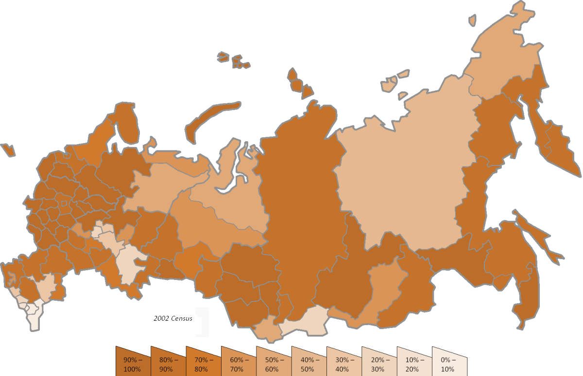 Ethnic Russians as a percent of the population by region, according to the 2002 census.